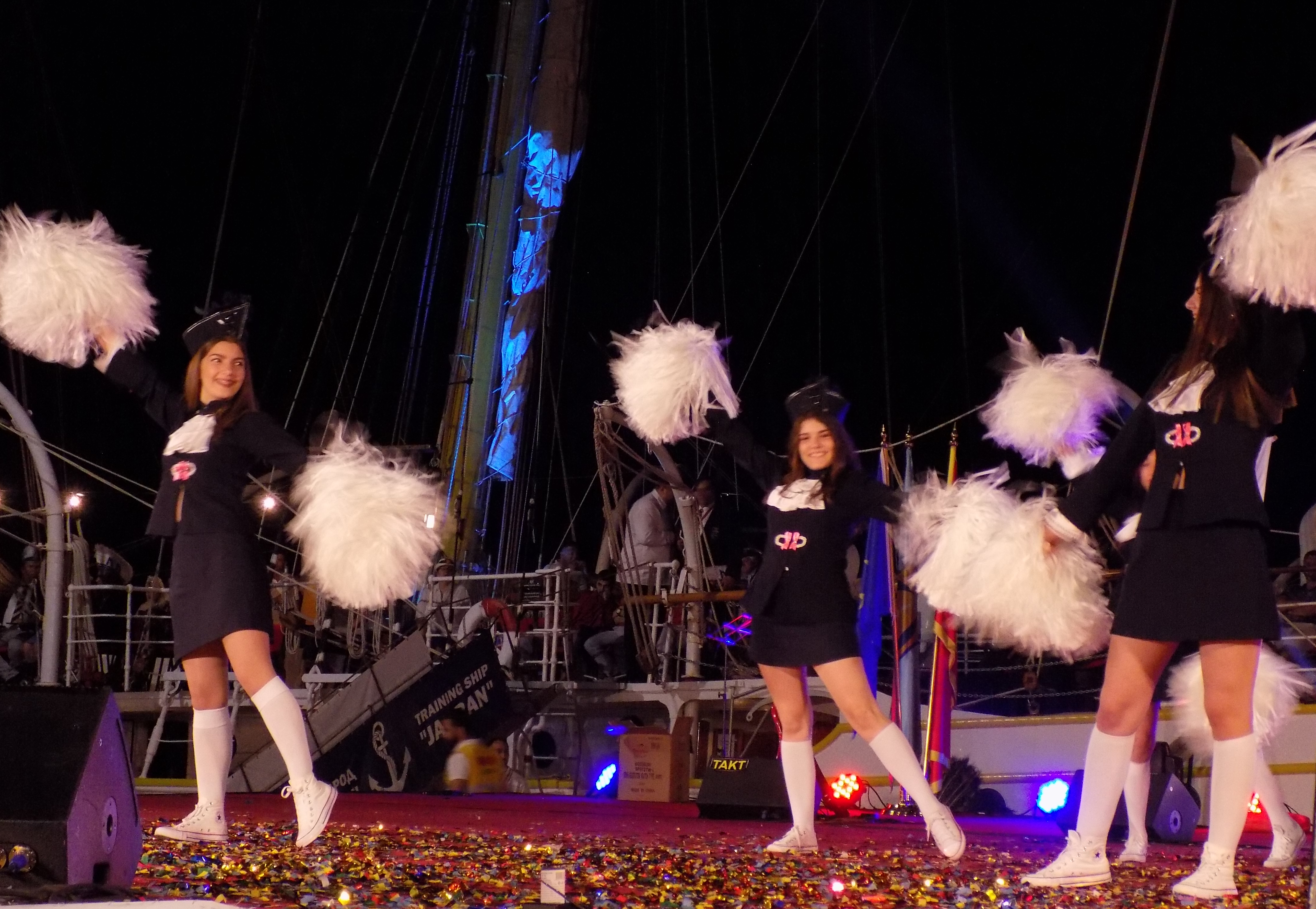 Carnival in Tivat in 2019, with the main stage in front of the ship "Jadran"